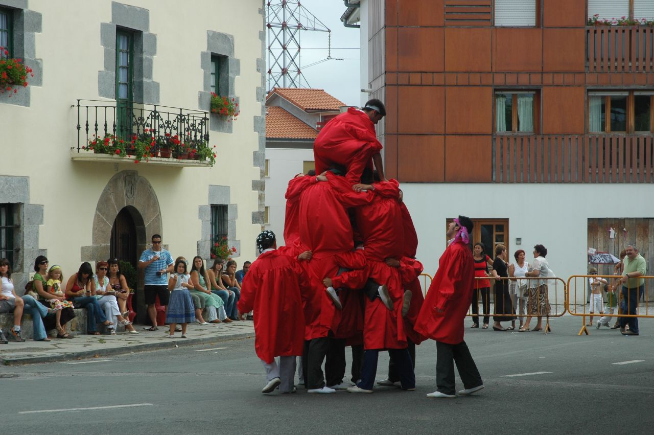 Human tower in the Basque 'fox dance' of Aduna